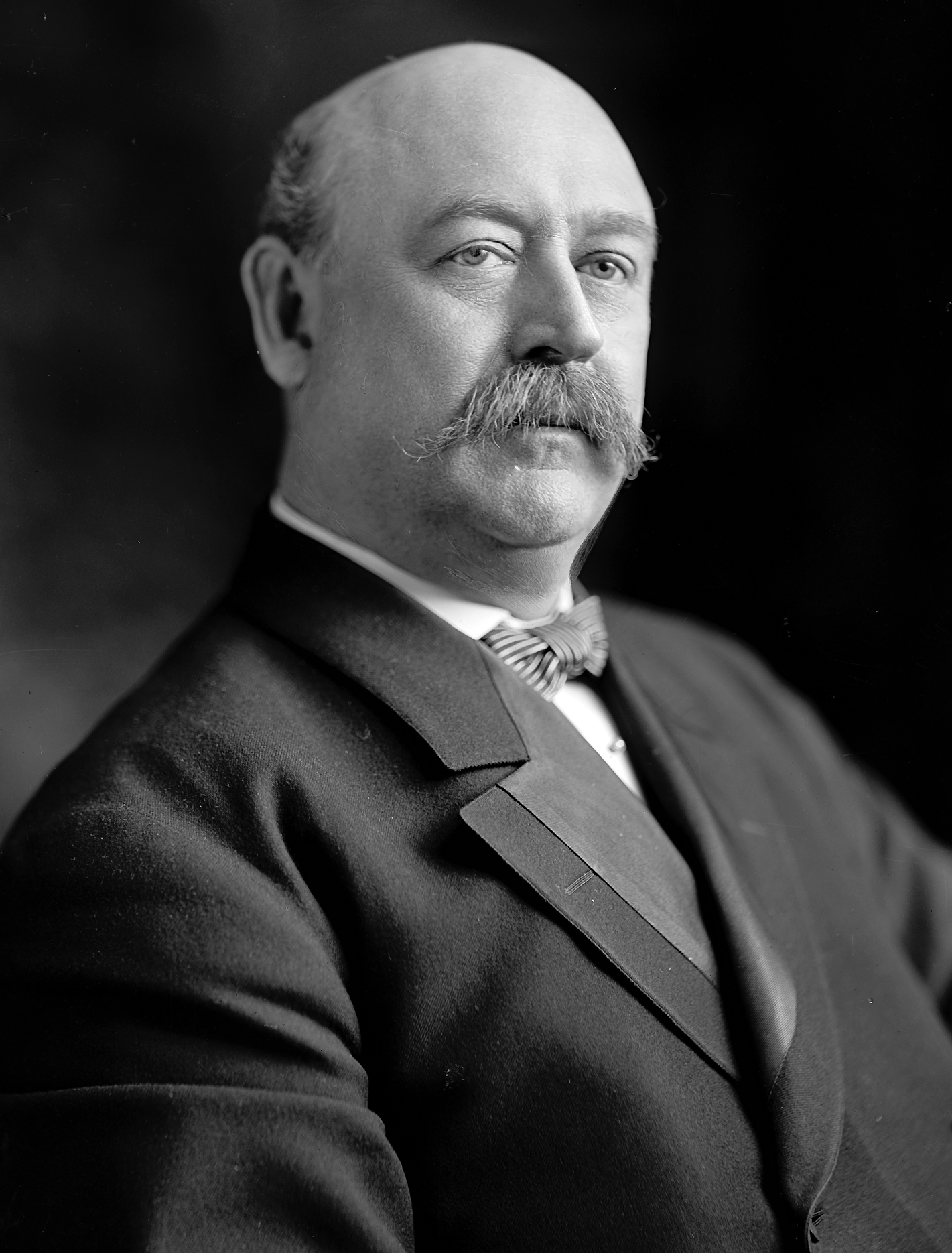 William E. Purcell, US Senator from North Dakota